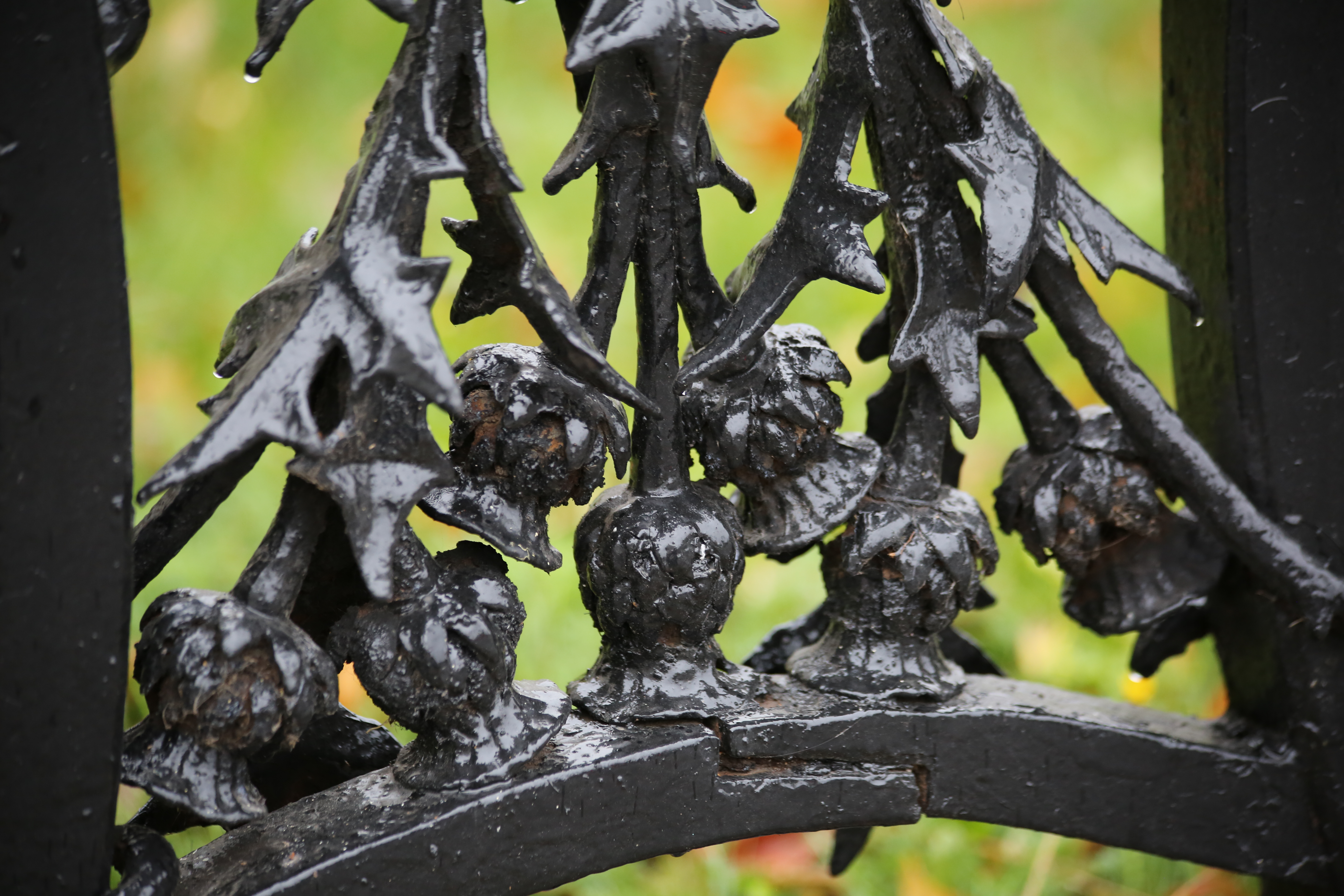 French Embassy in Vienna, 1901, arch. Georges Chedanne